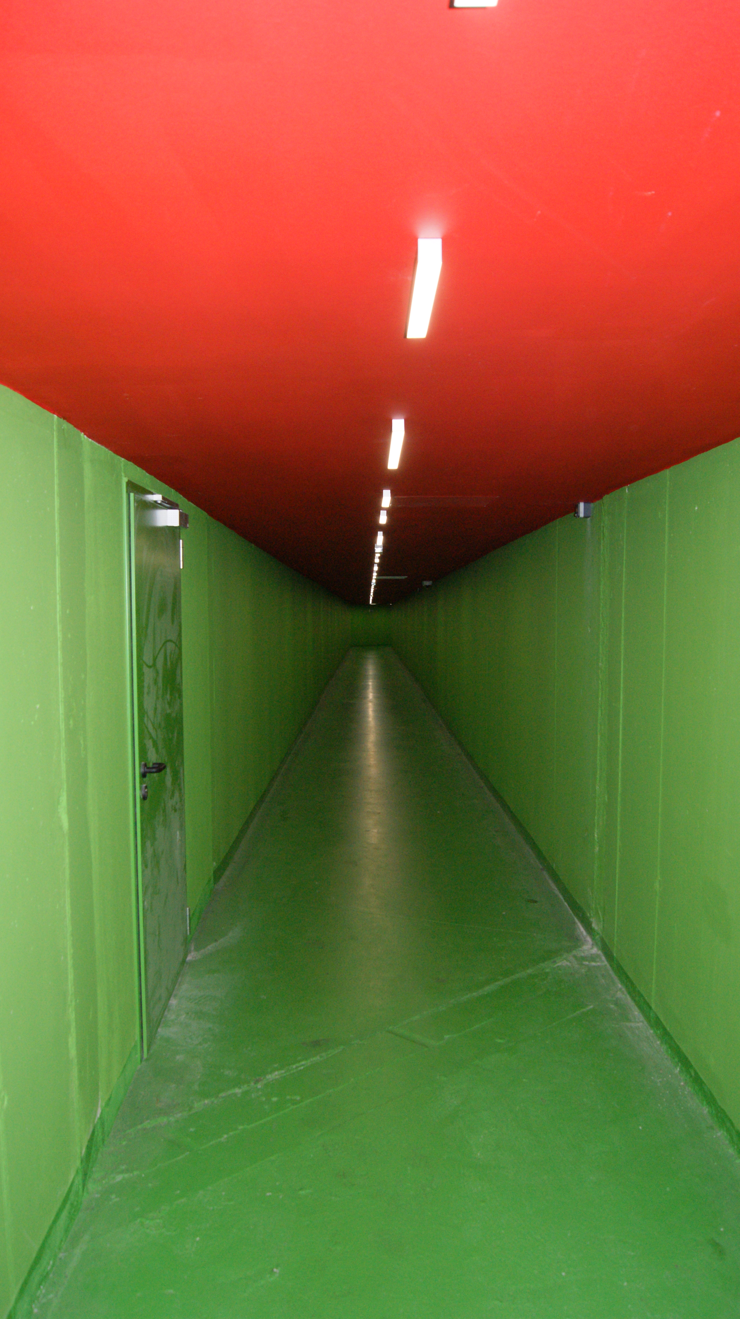 Rest area "Bodensee" ("Lake Constance") in the community Hörbranz in Vorarlberg, Austria. Pedestrian underpass from the northeastern part to the southwestern Raststation Bodensee.